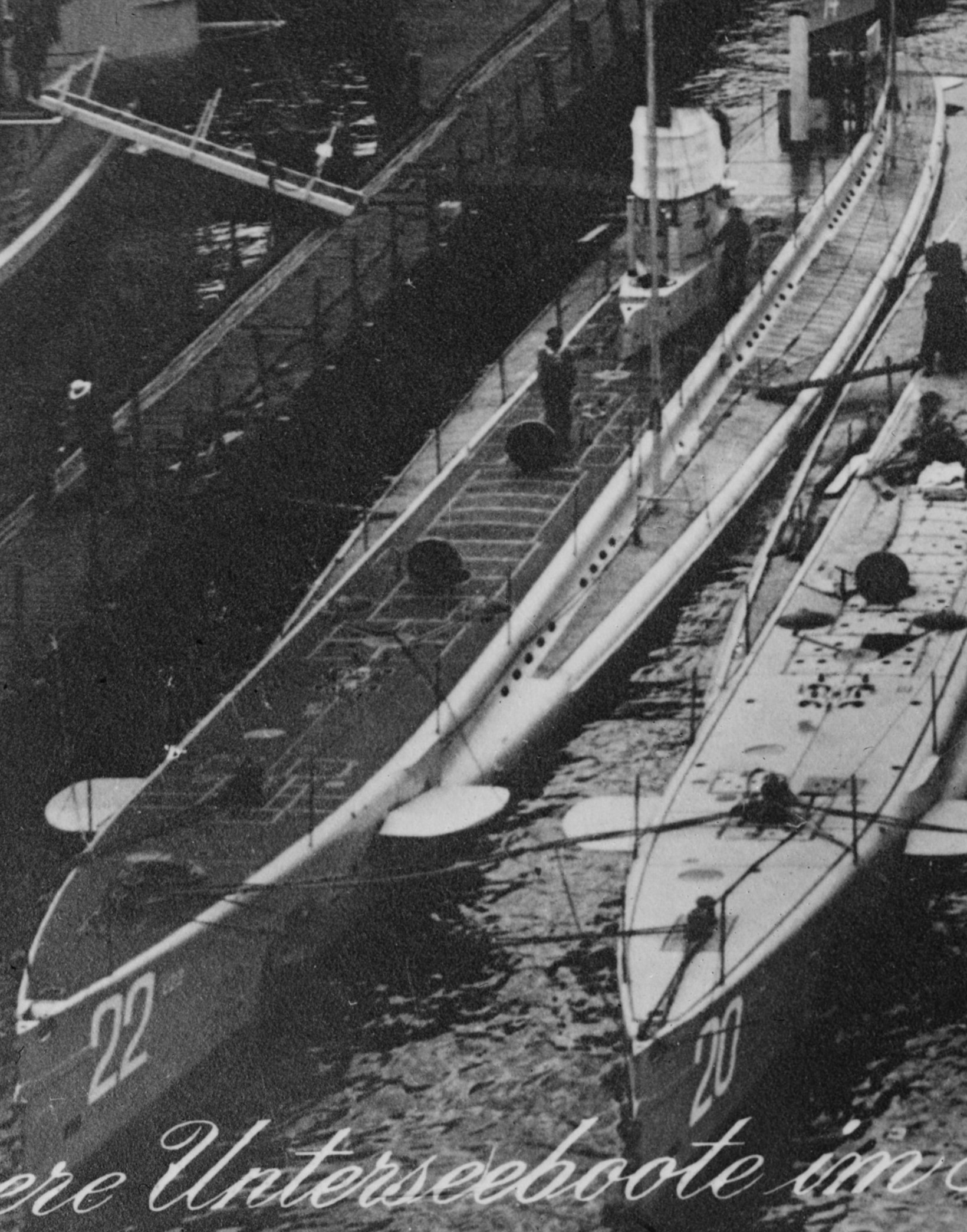 German U 22 submarine at Kiel, Schleswig-Holstein, on 17 February 1914. Cropped. Two flat decks - typical for early German U-boats - visible. German navy made use of them by having a flat deck added over the top of pressure hull for the crew to use as a working platforms. Picture was taken in 1914, before 1916 when boats U20-U22 received two 8,8cm deck guns (a lead ship U-19 received one 10,5cm gun in 1917 instead).